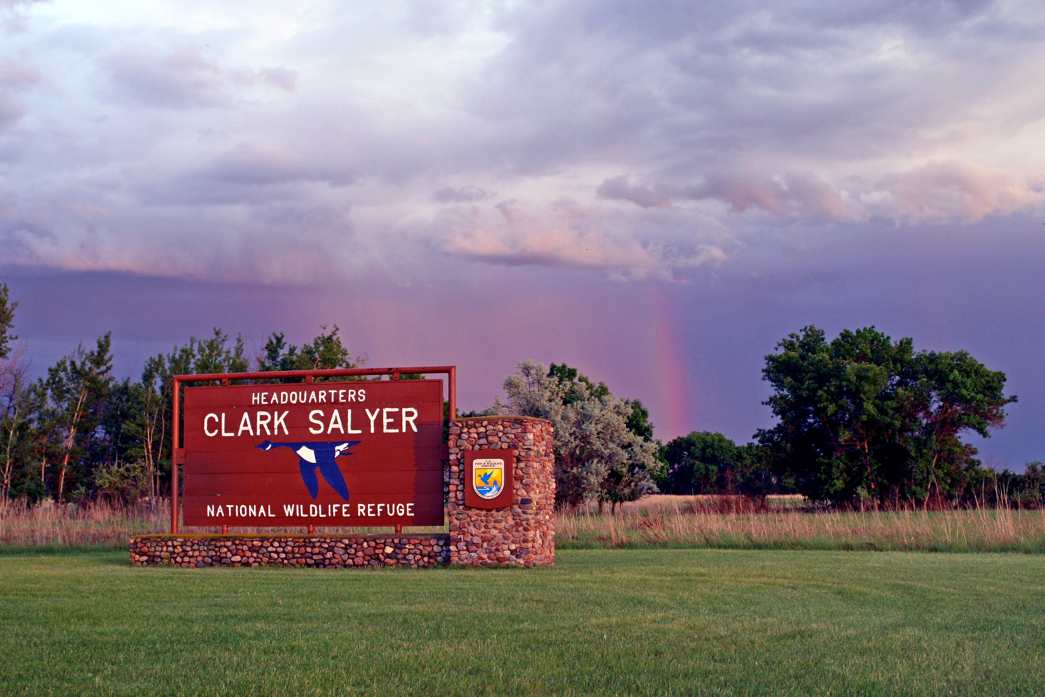 The main entrance to J. Clark Salyer NWR looks great with a rainbow. Photo Credit: Gary Eslinger/USFWS